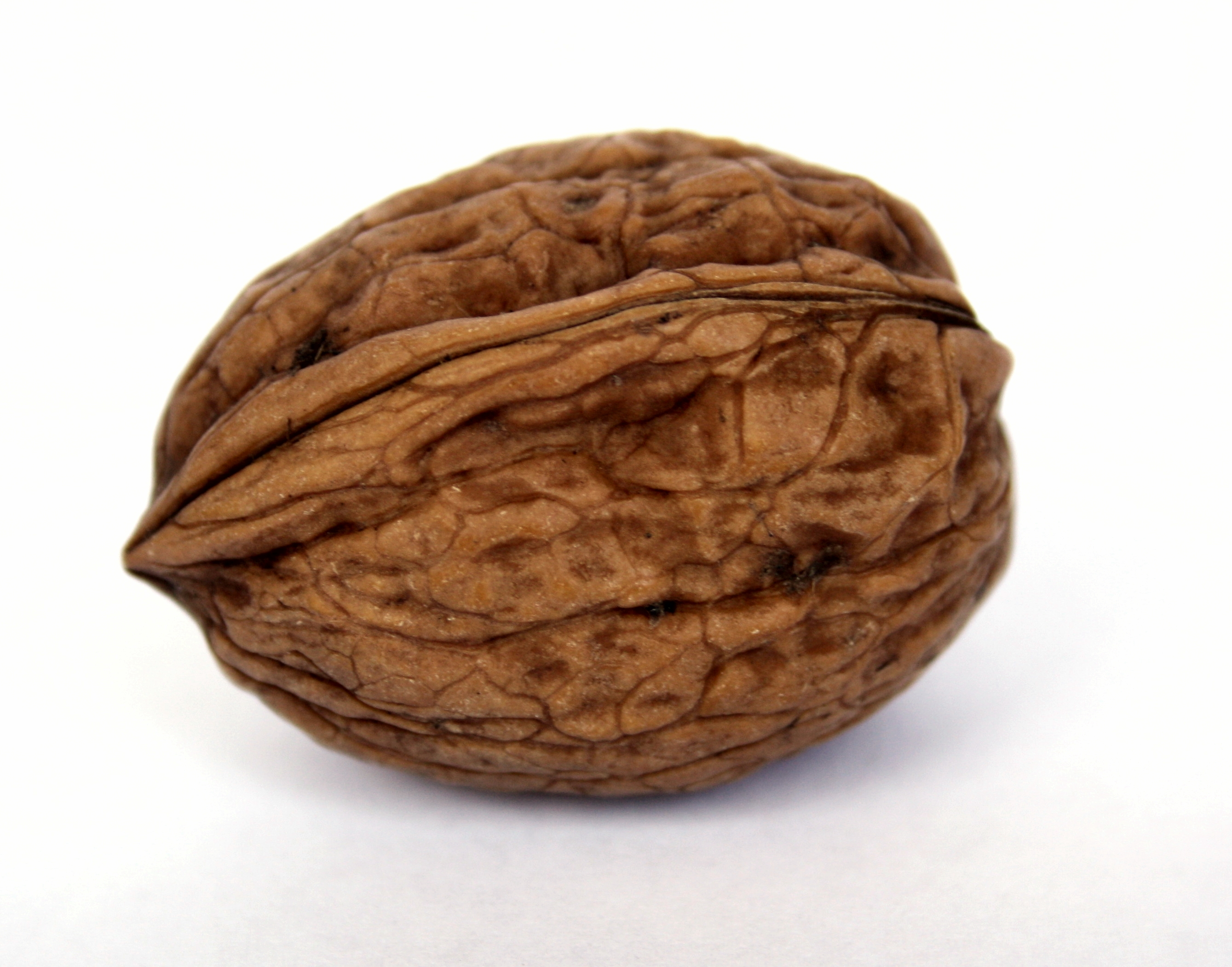 A Walnut (Juglans regia).